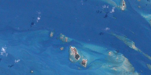 Duncan Islands, Western Torres Strait Islands, Queensland, Australia. Near right corner of the picture shows Green Islet.